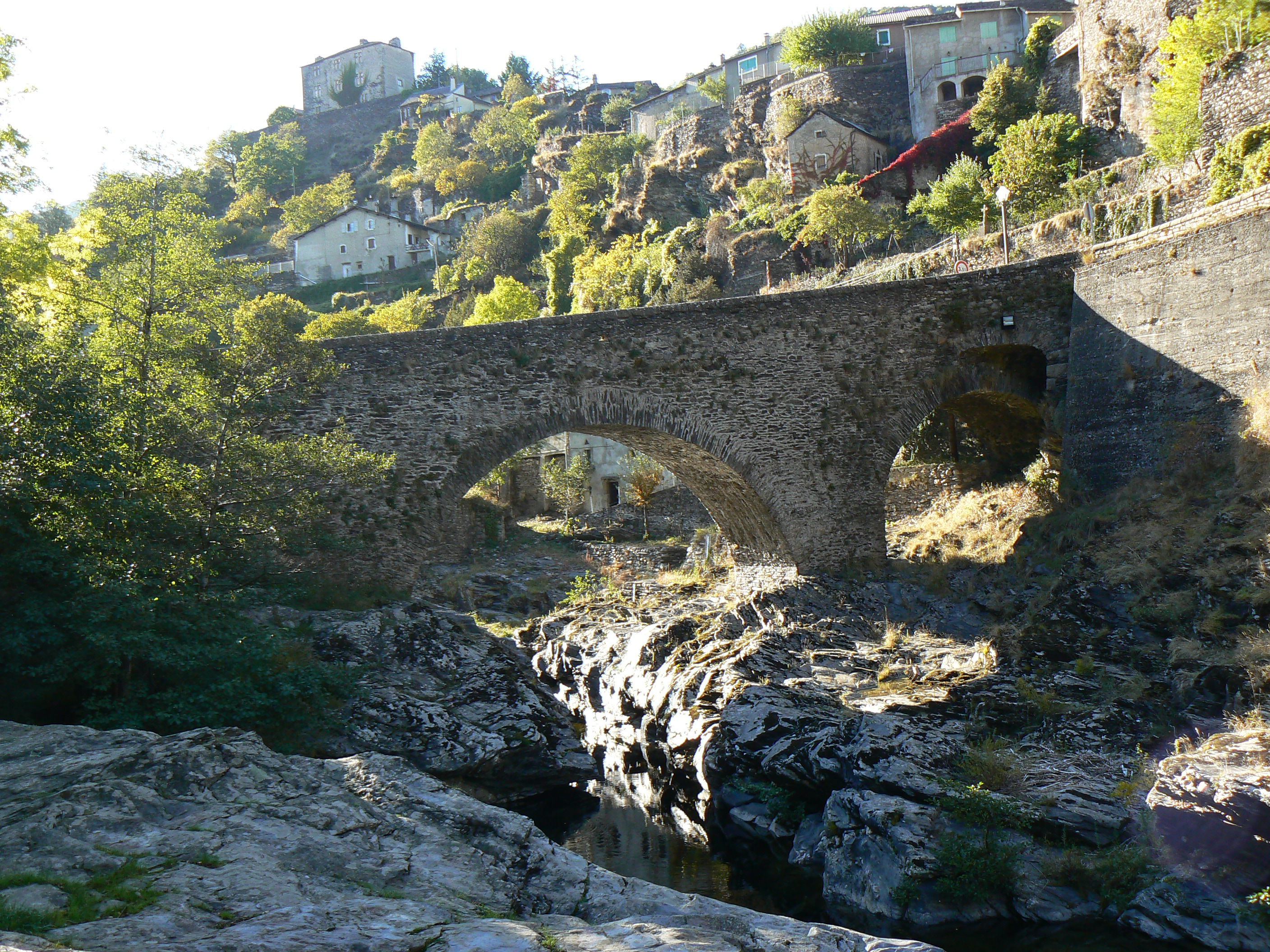 The village of Vebron in Lozère (France) and its bridge over the Tarnon River.